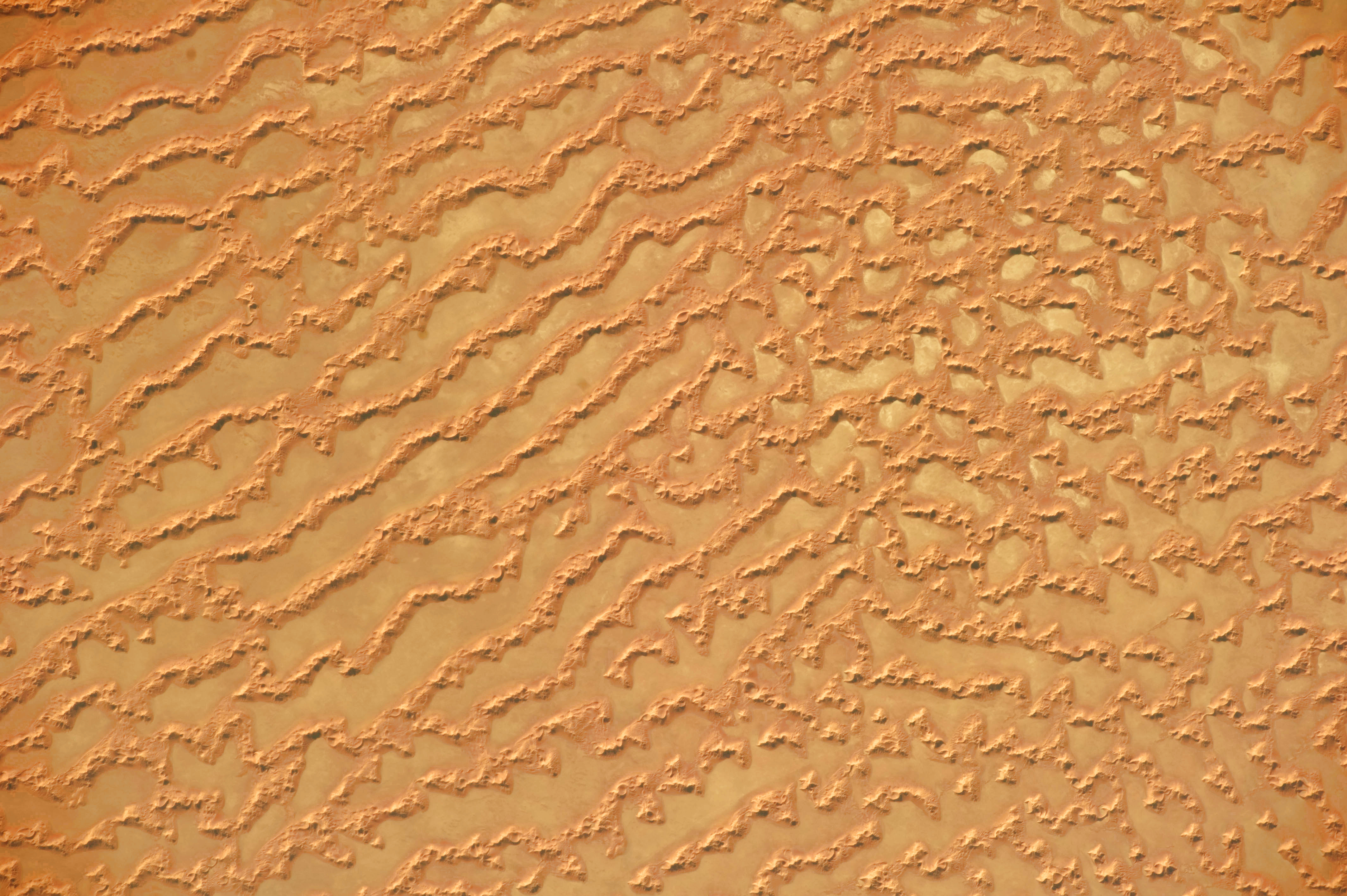 This astronaut photograph highlights a part of the Ar Rub’ al Khali near its south-eastern margin, in the Sultanate of Oman. Large, linear reddish-brown sand dunes alternate with inter-dune salt flats, or sabkhas. The long, linear dunes begin to break up into isolated large star dunes to the northeast and east (image right).